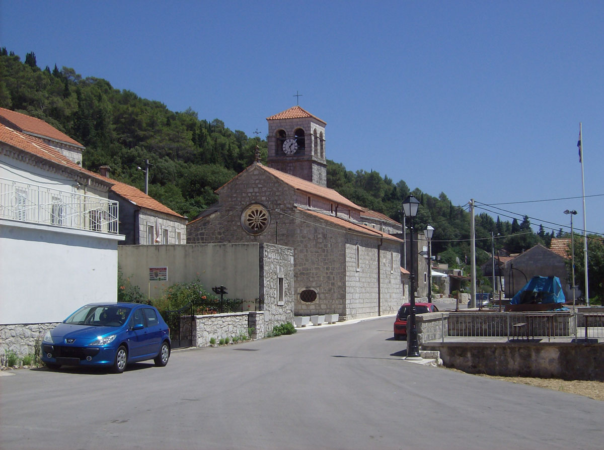 Town of Pupnat on the island of Korčula, Croatia, Europe